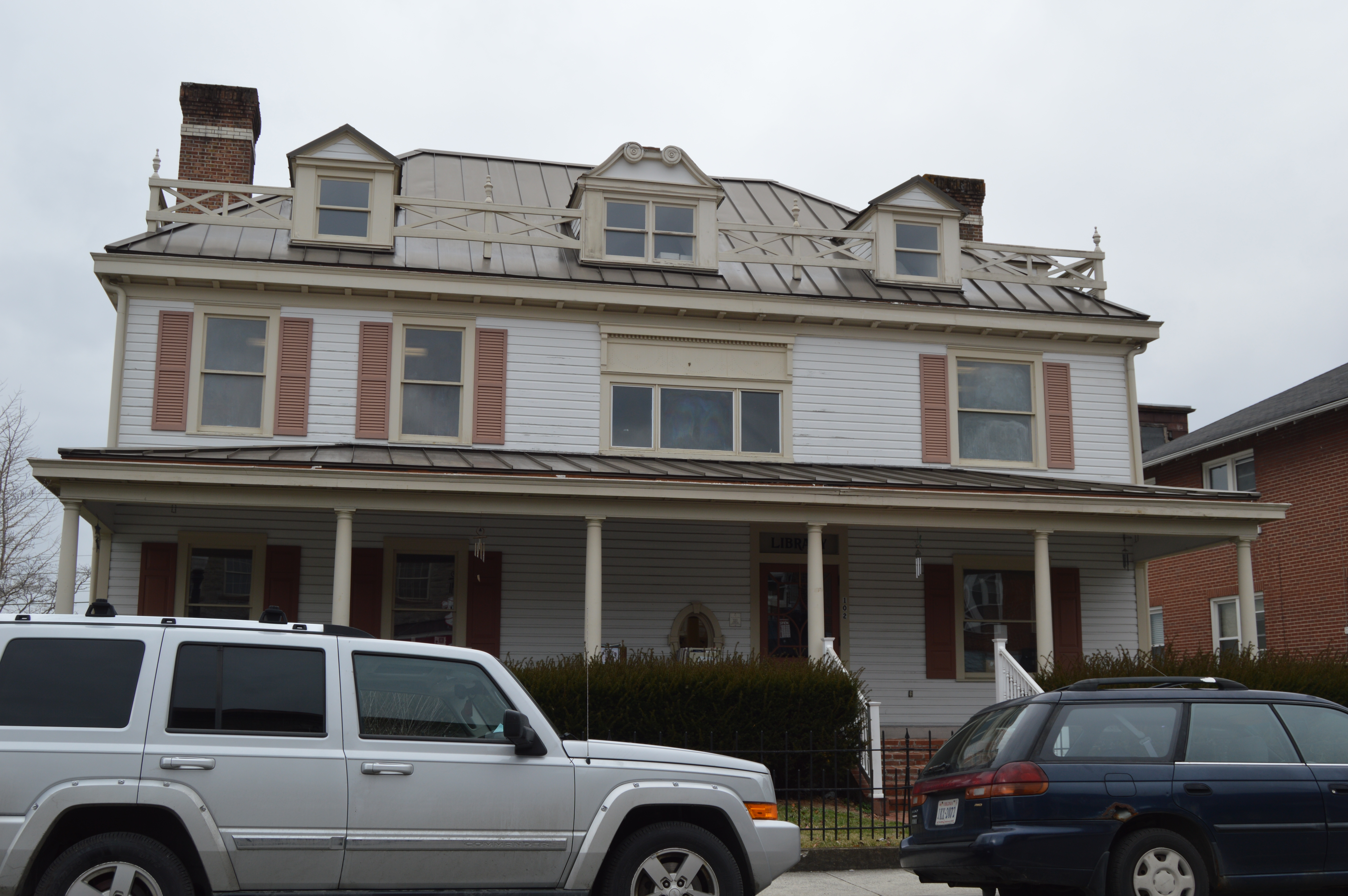 Front of the Williams House, located at 102 Suffolk Avenue in Richlands, Virginia, United States. Built in 1890, it is listed on the National Register of Historic Places, and it is part of a Register-listed historic district, the Richlands Historic District.